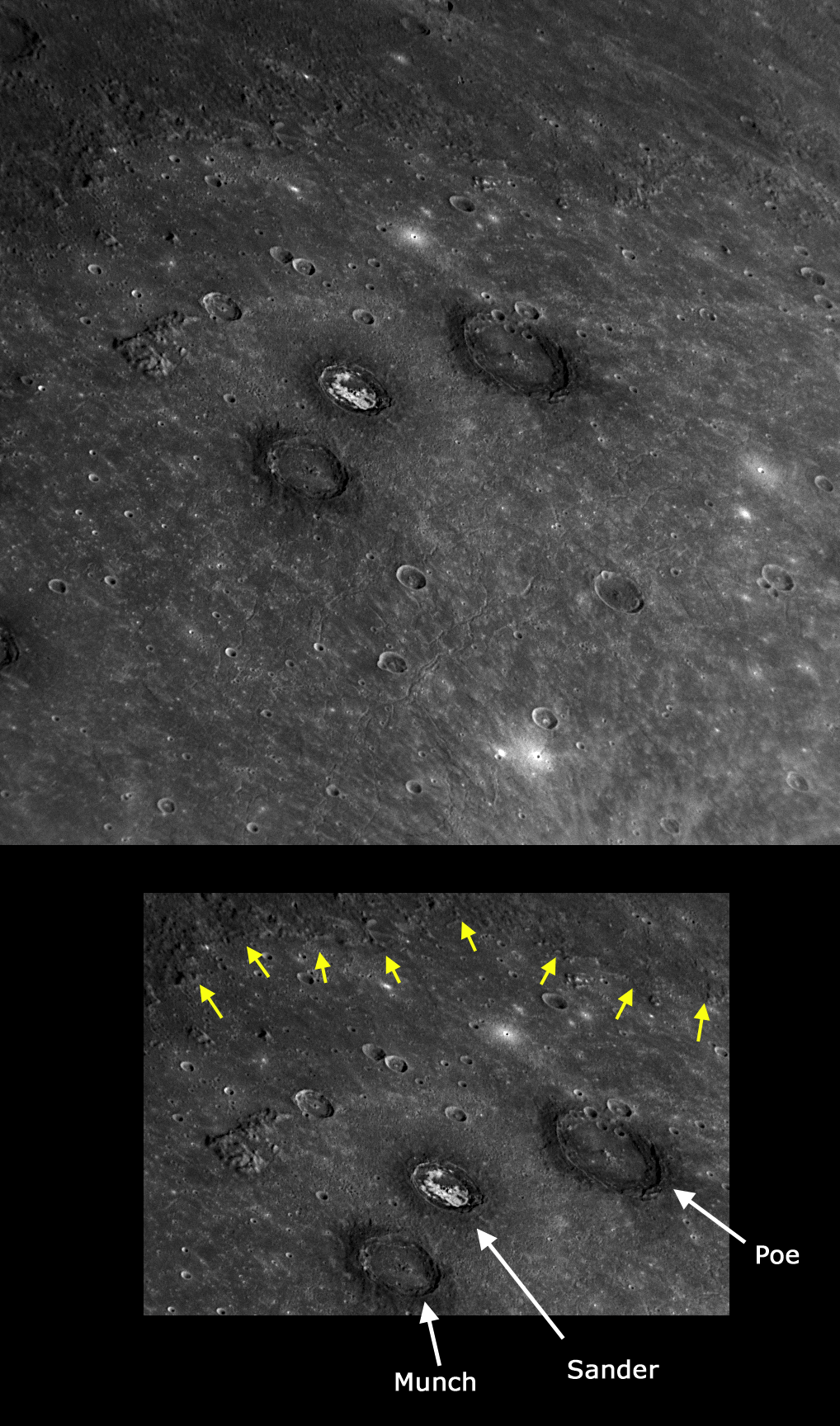 Date Acquired: January 14, 2008 Image Mission Elapsed Time (MET): 108828587 Instrument: Narrow Angle Camera (NAC) of the Mercury Dual Imaging System (MDIS) Resolution: 520 meters/pixel (0.32 miles/pixel) Scale: This image is about 530 kilometers (330 miles) across Spacecraft Altitude: 20,400 kilometers (12,400 miles) Of Interest: Sander, Munch, and Poe are a trio of impact craters within the Caloris impact basin. Munch and Poe were recently named, while Sander received its name in the first set of feature names after MESSENGER’s first Mercury flyby. Munch is named for Edvard Munch (1863-1944), the Norwegian artist and painter of The Scream. The crater Poe takes its name from Edgar Allan Poe, the 19th century American writer and poet. Sander is named for the German photographer August Sander (1876-1964). Sander crater exhibits very bright material within its crater rim, while Munch and Poe each are surrounded by dark material. The presence of both bright and dark materials suggest that there is a diversity of rock types on and below Mercury's surface, with different mineralogical compositions from those of the volcanic plains that comprise the majority of the floor of Caloris basin. The three craters are located in the far northern part of the Caloris basin. The basin rim, indicated by yellow arrows, can be seen in the upper left and extending across the top of this image, and many fractures within Caloris basin are visible in the lower portion of this image. Credit: NASA/Johns Hopkins University Applied Physics Laboratory/Carnegie Institution of Washington